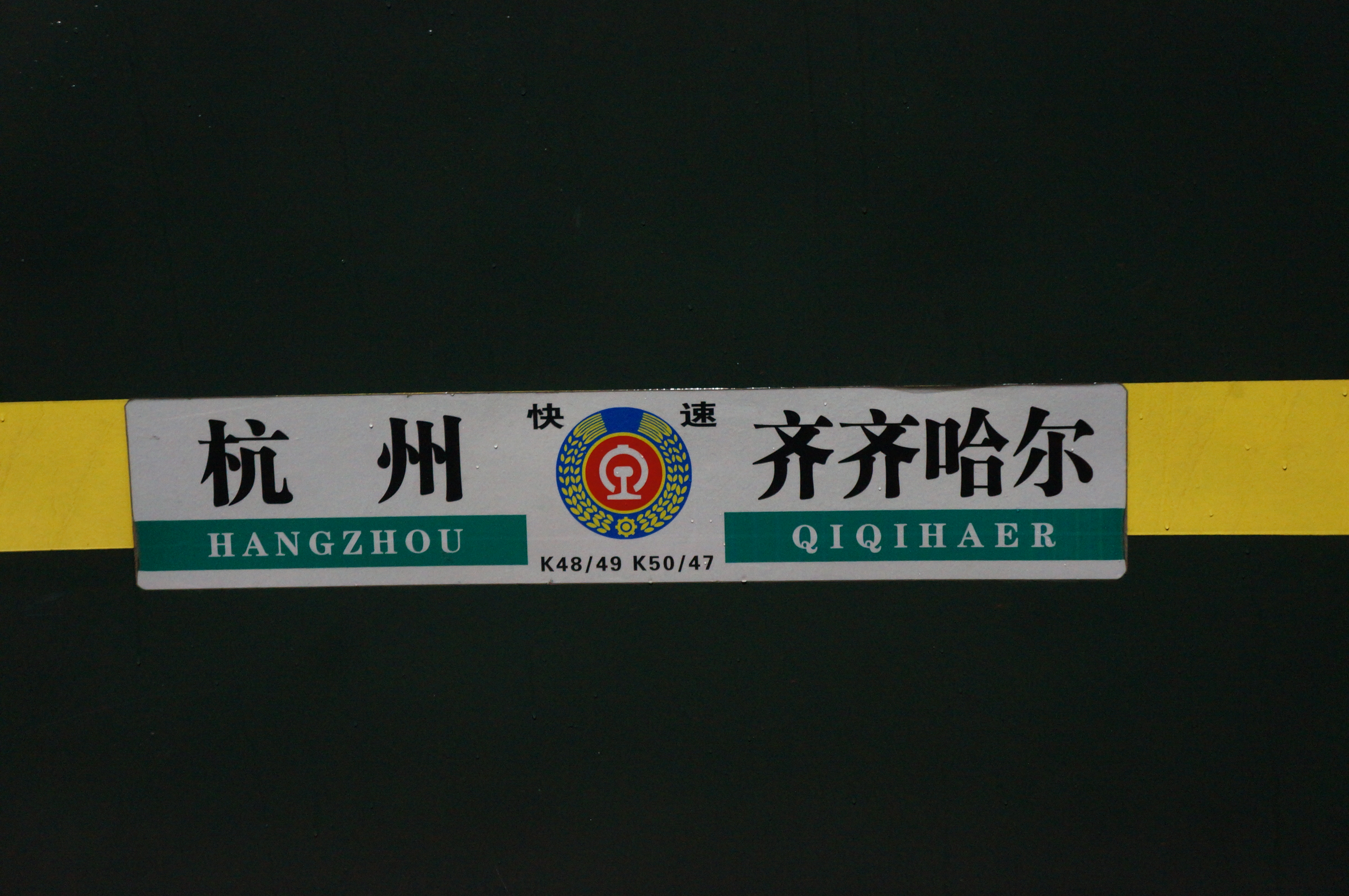 K47 48 49 50 infoboard between Qiqihar to Hangzhou in 201812